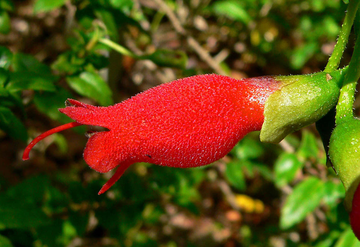 Photo of Mitraria coccinea at the San Francisco Botanical Garden